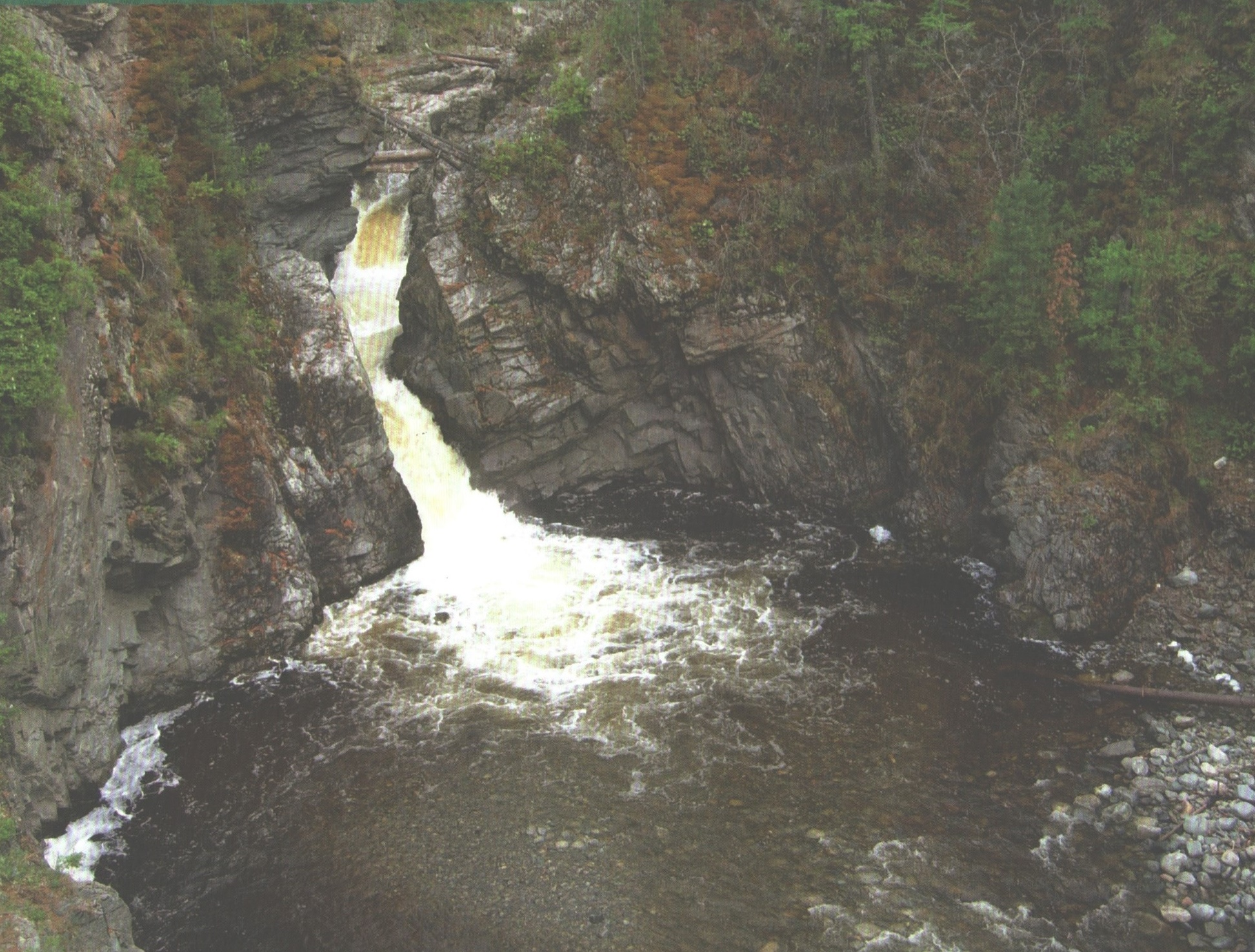 canon Durgen